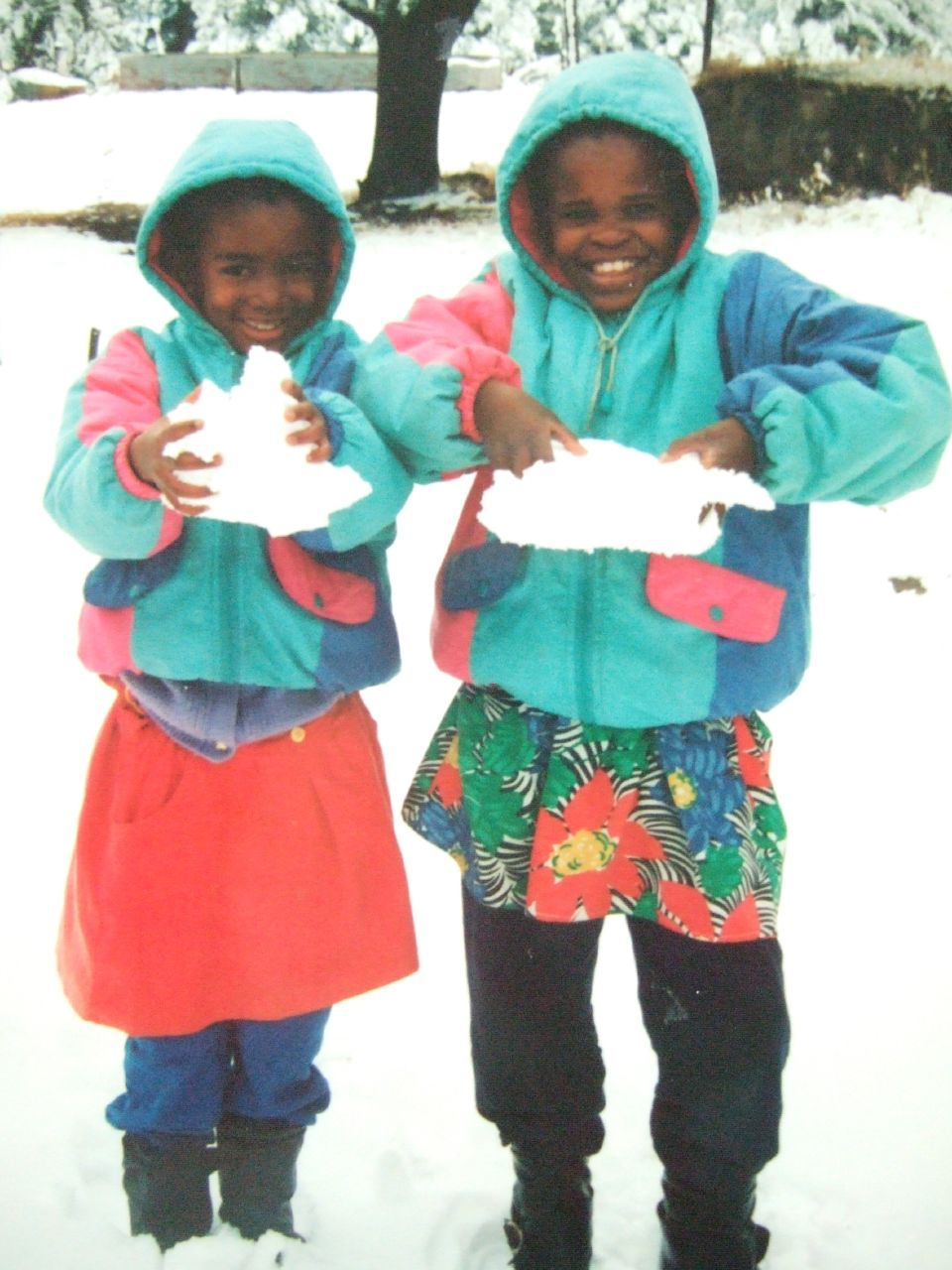 Lesotho children wearing hooded coats and playing in snow (snow is very rare in Lesotho).